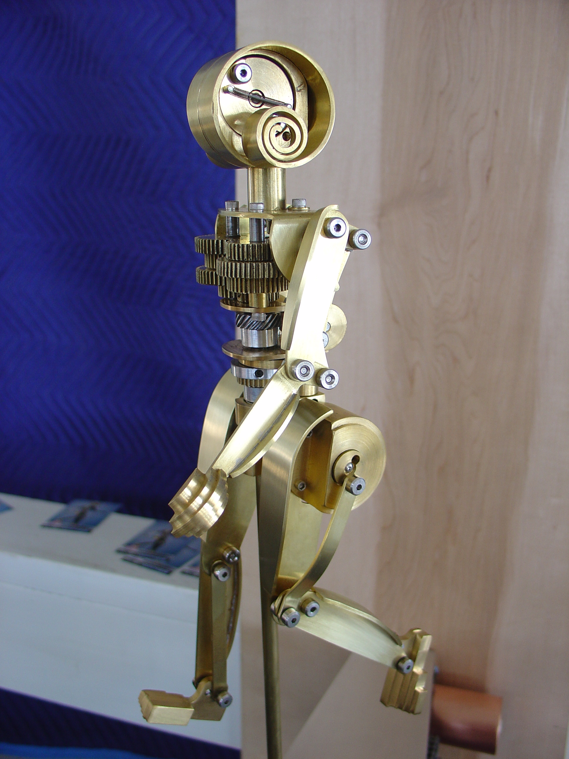 RoboArt at Robogames, SF